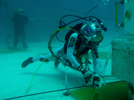 European Space Agency astronaut/NEEMO 16 aquanaut Tim Peake prepares to anchor so he has a stable platform from which to gather samples. The NEEMO 16 crew is simulating techniques to be used by astronauts on a future mission to a near-Earth asteroid. NASA photo in public domain.